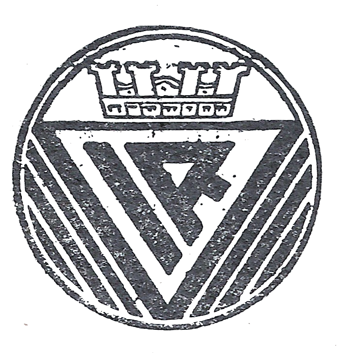 Emblem of Republican Left